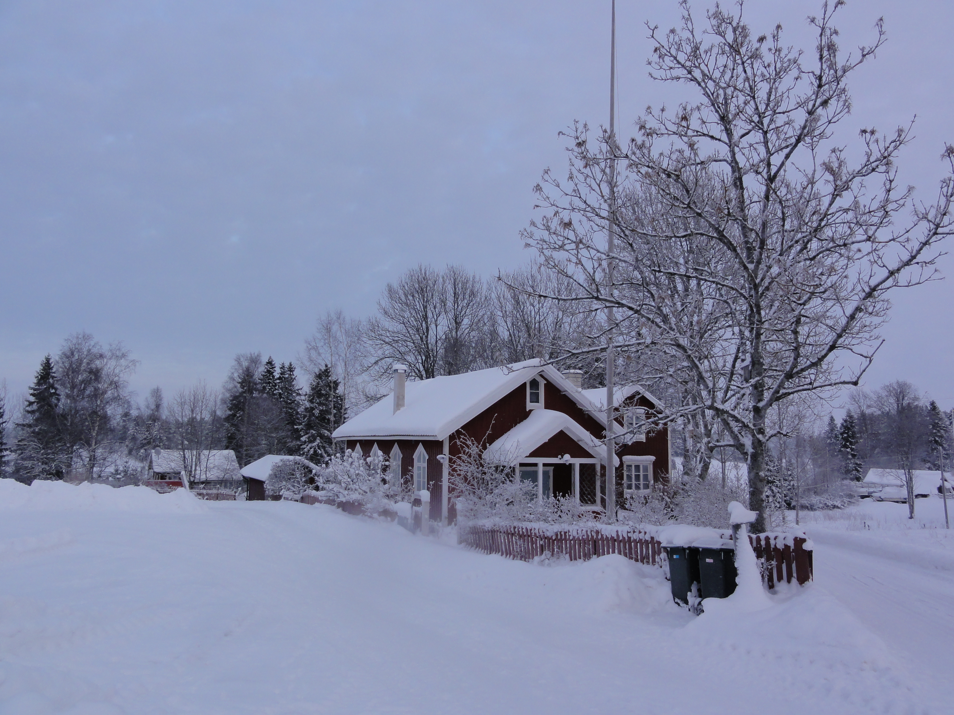 The Gospel Hall in Vettershaga, Sweden